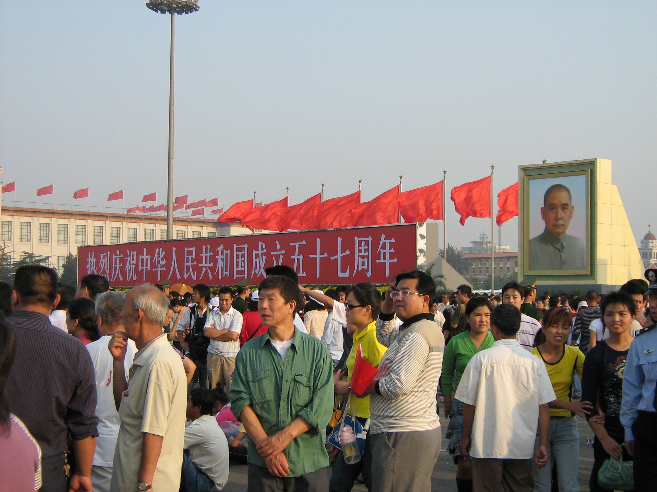 Tiananmen Square, National Day of the PRC, October 1, 2006